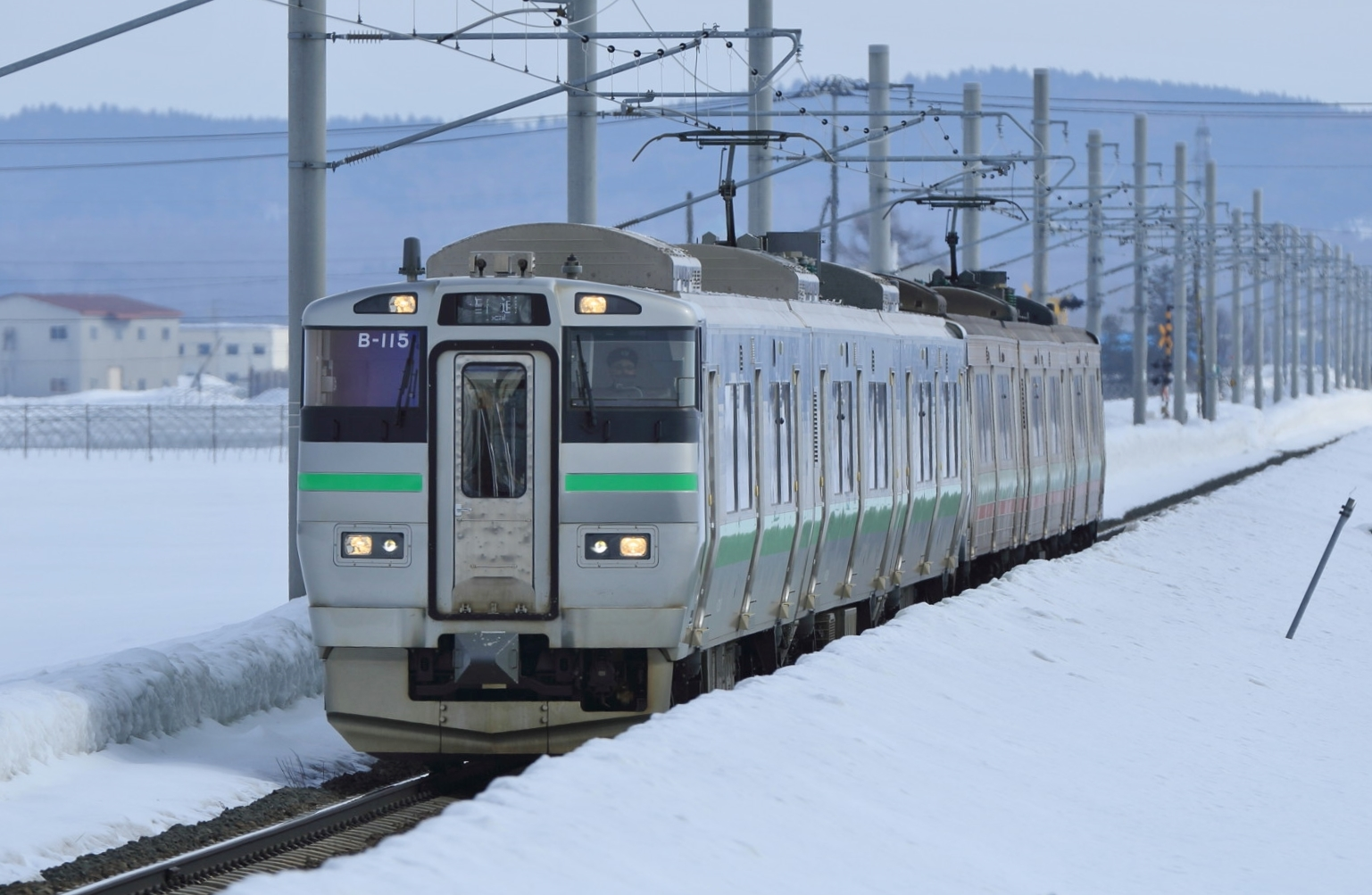 JR Hokkaido 733 series 3-car EMU set B-115 and a 3-car 731 series EMU between Ishikari-Futomi and Ishikari-Tobetsu on the Gakuentoshi Line (Sassho Line) in Hokkaido, Japan